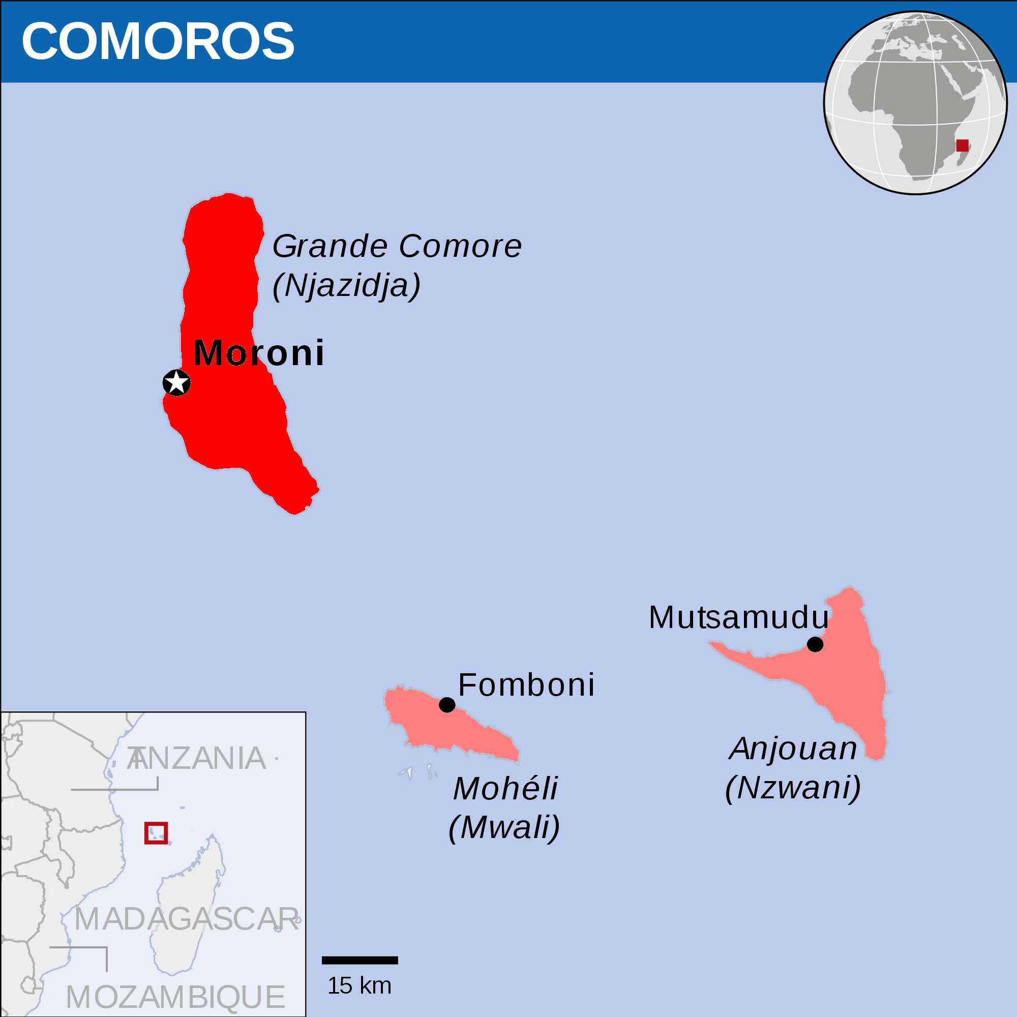 Confirmed cases per region in Comoros as of 19 May 2020 1-10 11-25